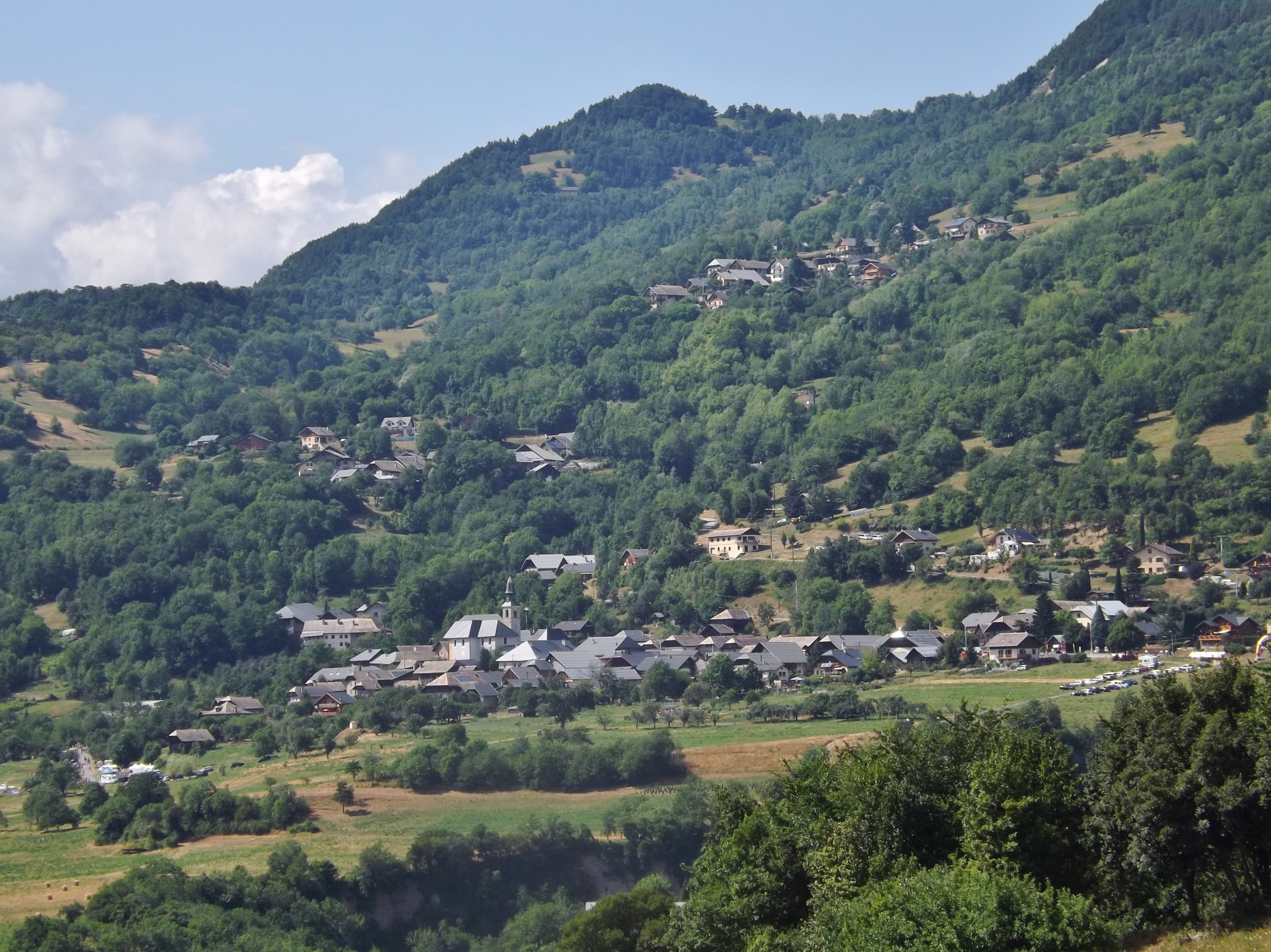 Panoramic sight, from Le Châtel, on the French alpine village of Montvernier, in the Maurienne valley of Savoie.